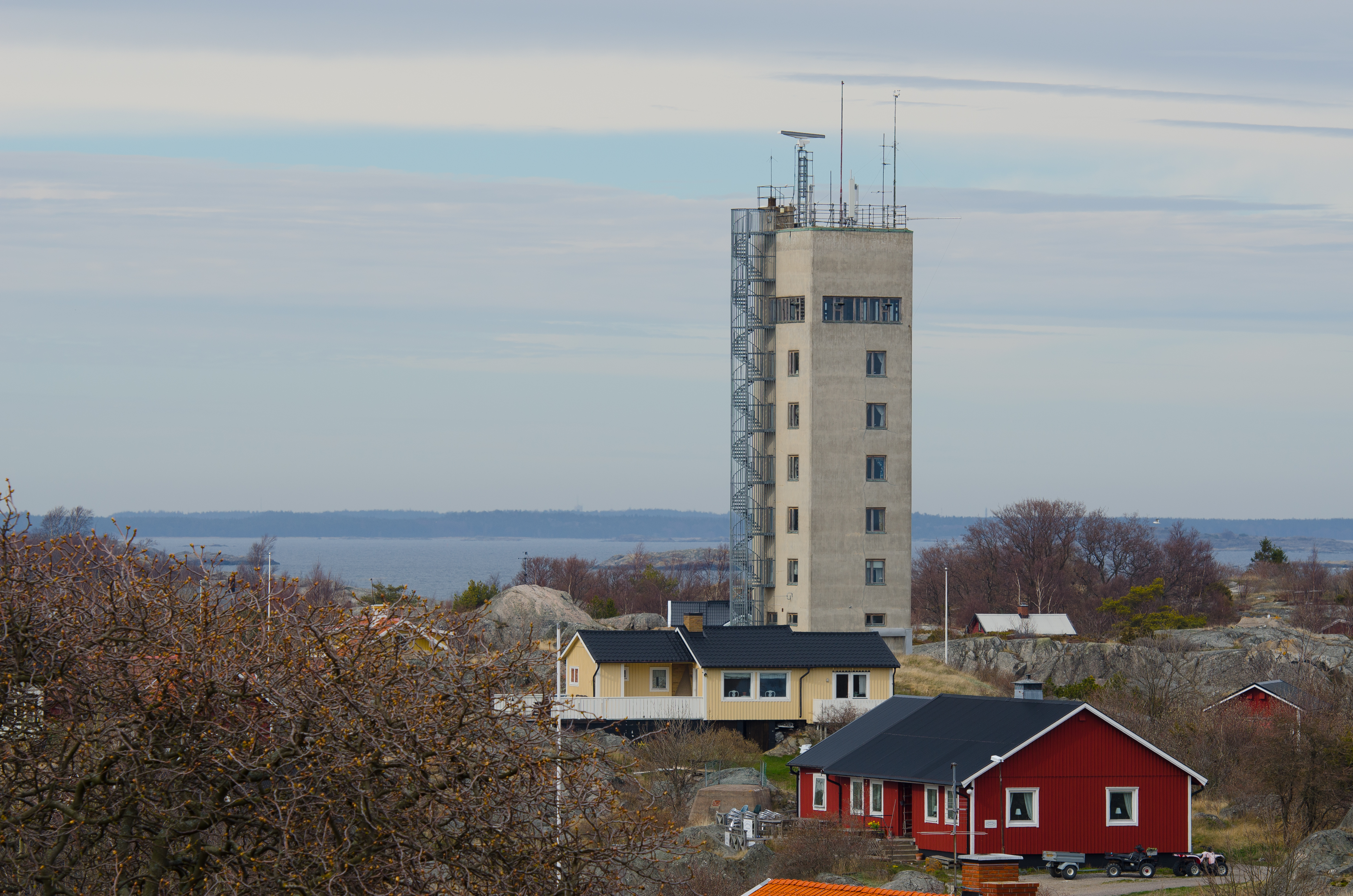 Pilot watch-tower at Öja island (Landsort), Stockholm archipelago's most southern point.